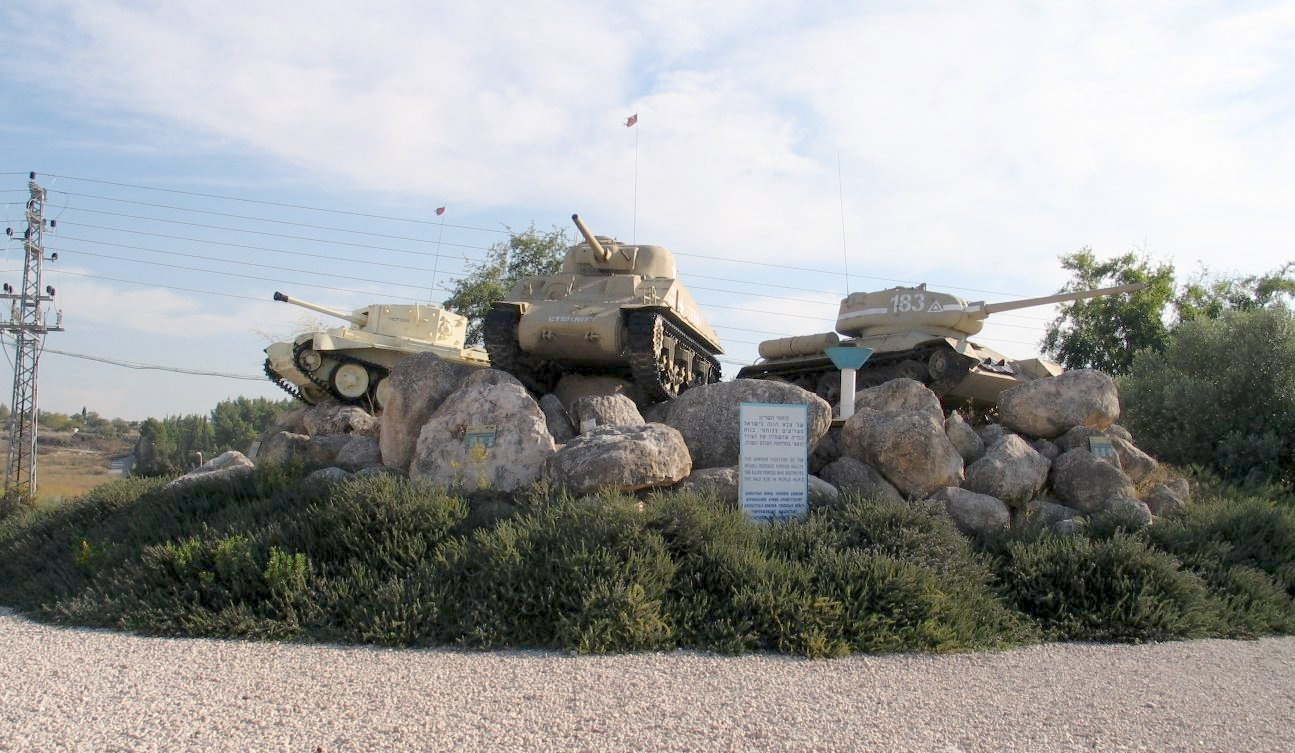 WWII Memorial in Yad la-Shiryon Museum, Israel. 2005.